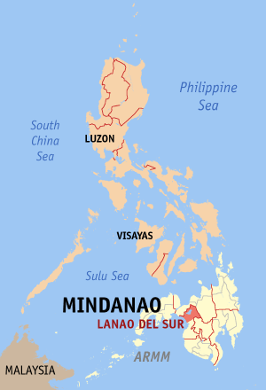 Map of the Philippines showing the location of Lanao del Sur